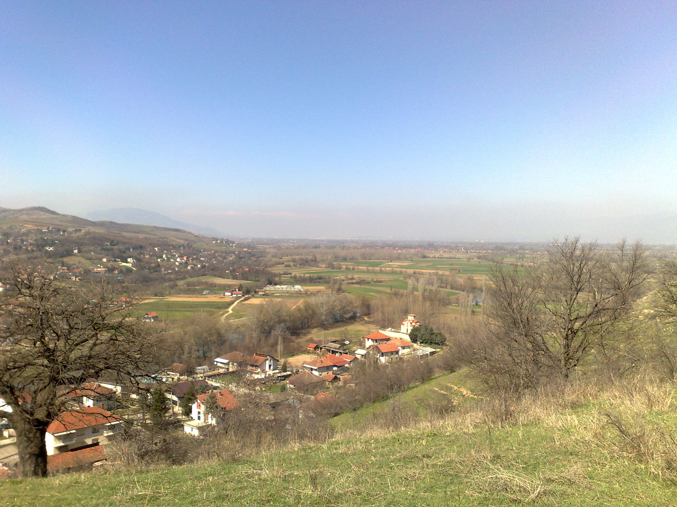 View of a part of the village Taor with the church St.Ellyah, Macedonia